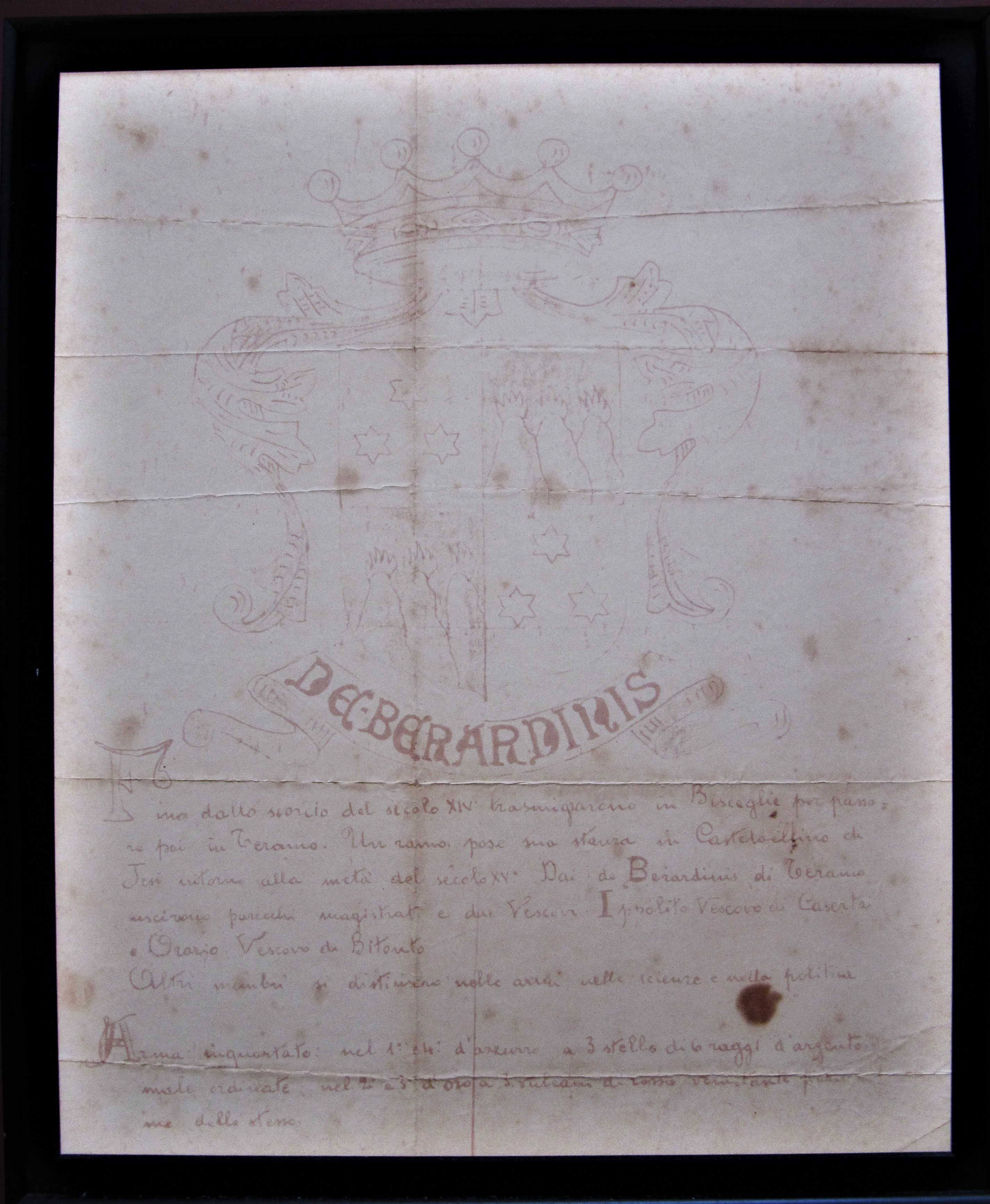 The official De Berardinis coat of arms dated back to the mid 13th century. curtesy of Sgnior Mark de Berardinis.